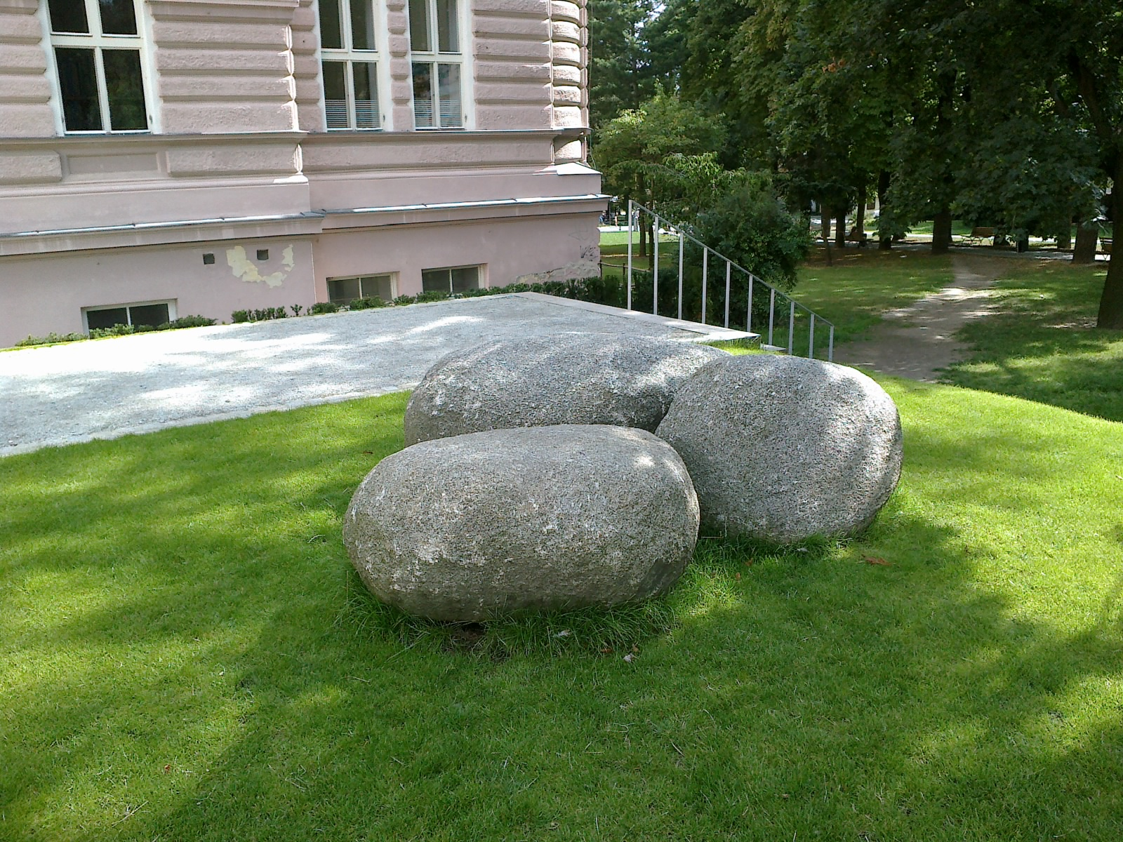 gymzn